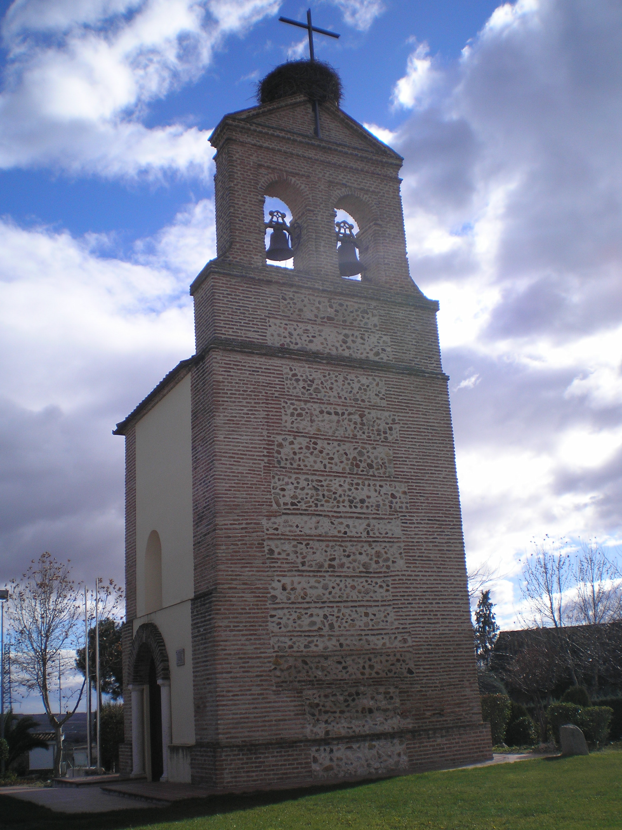 Old church in Fuente del Fresno, San Sebastián de los Reyes, Madrid.